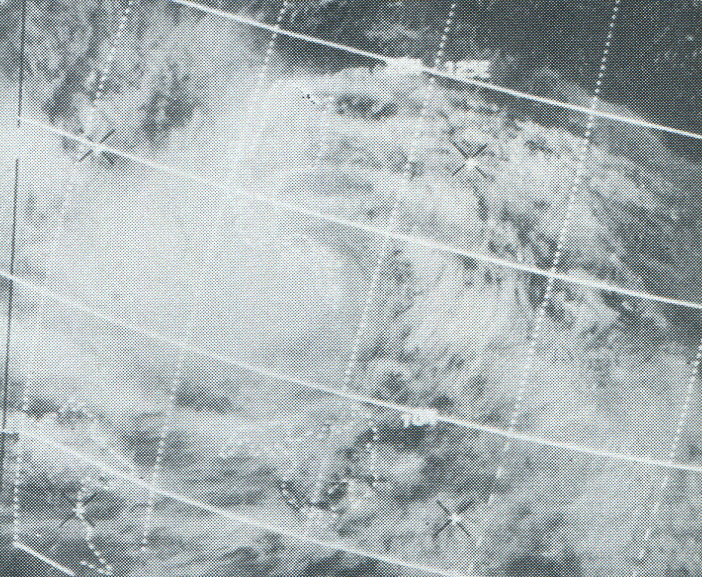 This ITOS 1 weather satellite image was taken on October 3, 1970 at 0640 UTC